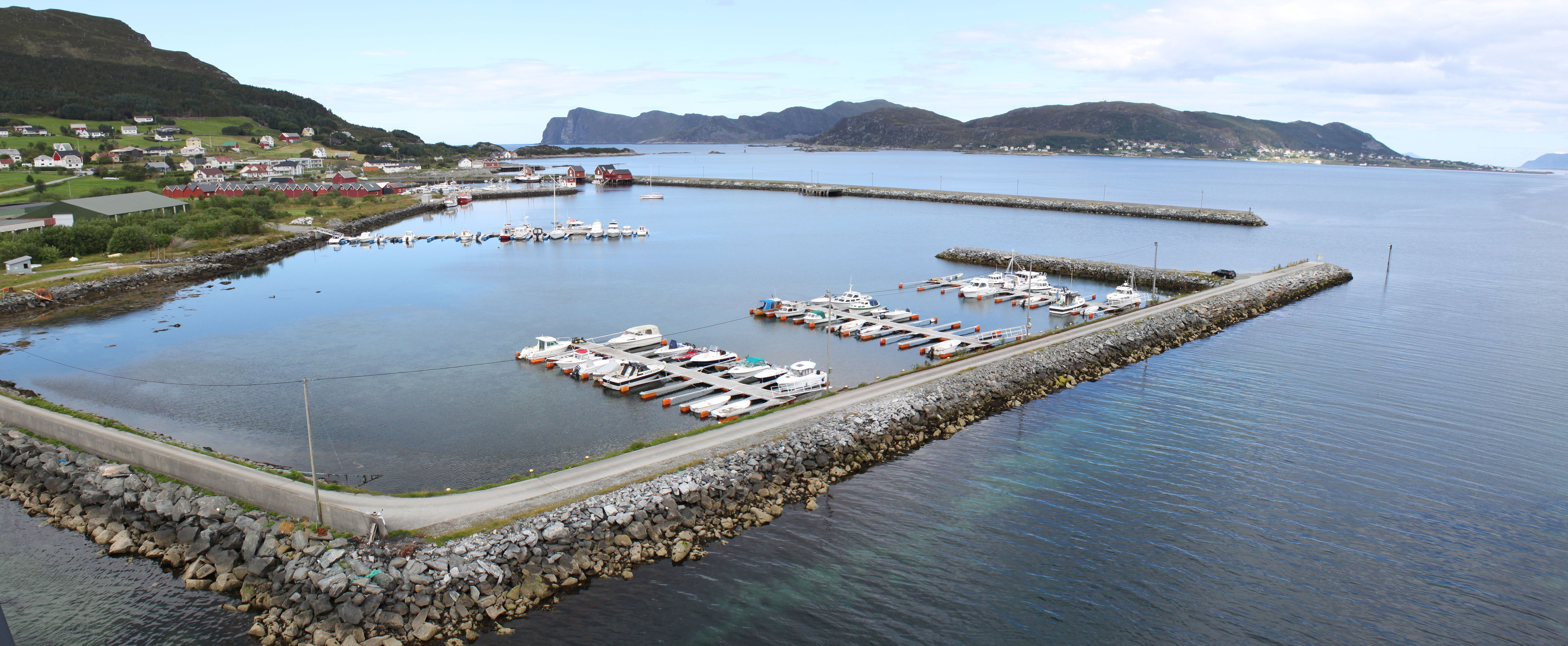 Harbor facilities in Kvalsund on Nerlansøy in Herøy municipality, Norway.